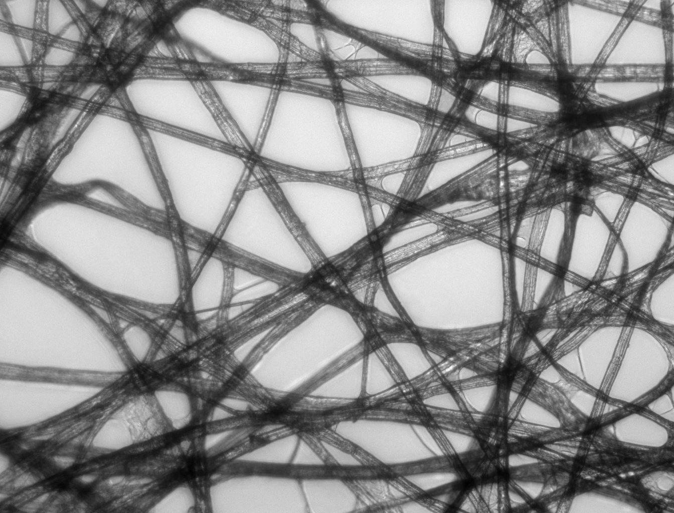 Micrograph of Whatman lens tissue paper. Bright field illumination. 10x magnification, 1.559 μm/px.